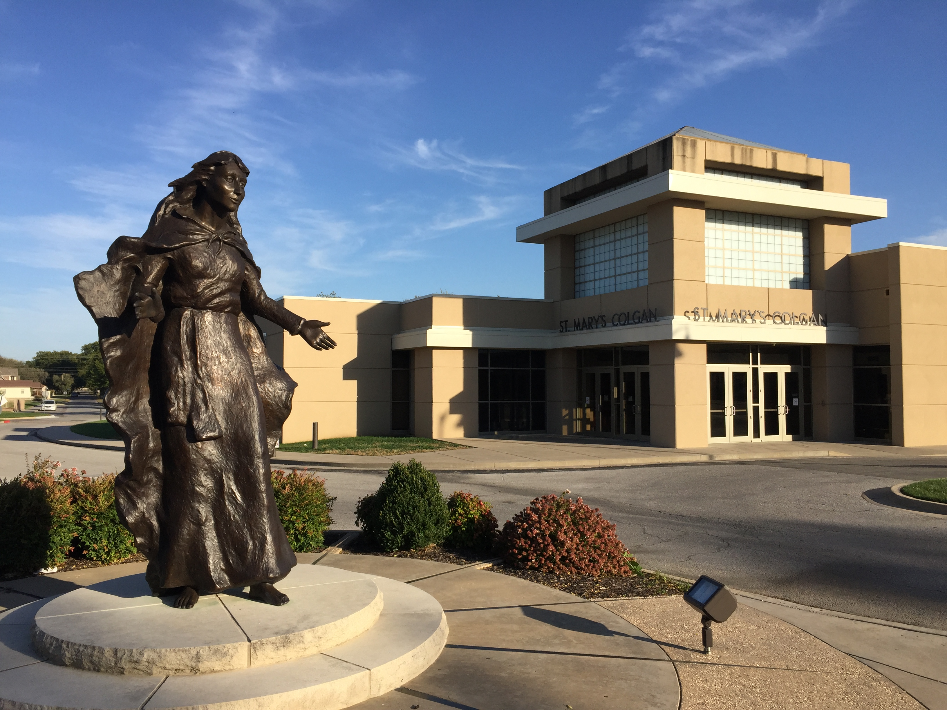 A view of the high school on October 23, 2016